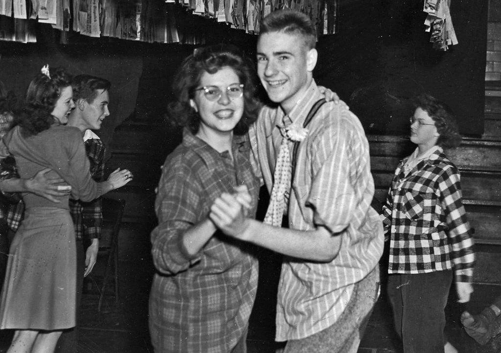 High school dance, 1941. Worthington (Ohio) High School informal dance, probably sponsored by the G.A.A. and held after a football game. I can't name any of the people. I probably took the photo because of the informal attire that was unusual in those days. I just found the 5x7 print in a dresser drawer.